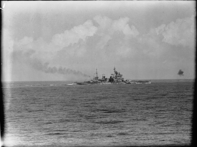 The Royal Navy during the Second World War HMS PRINCE OF WALES opens fire with her two pounder pom-poms and 5.25 inch guns during an enemy bombing attack on the Malta convoy she was escorting (Operation HALBERD). She shot down two enemy aircraft in the first few minutes.